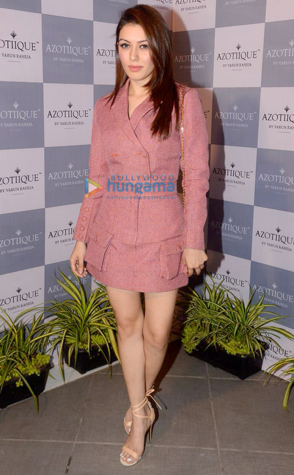 Hansika Motwani attends the launch of the multi-designer jewelry store Azotiique by Varun Raheja